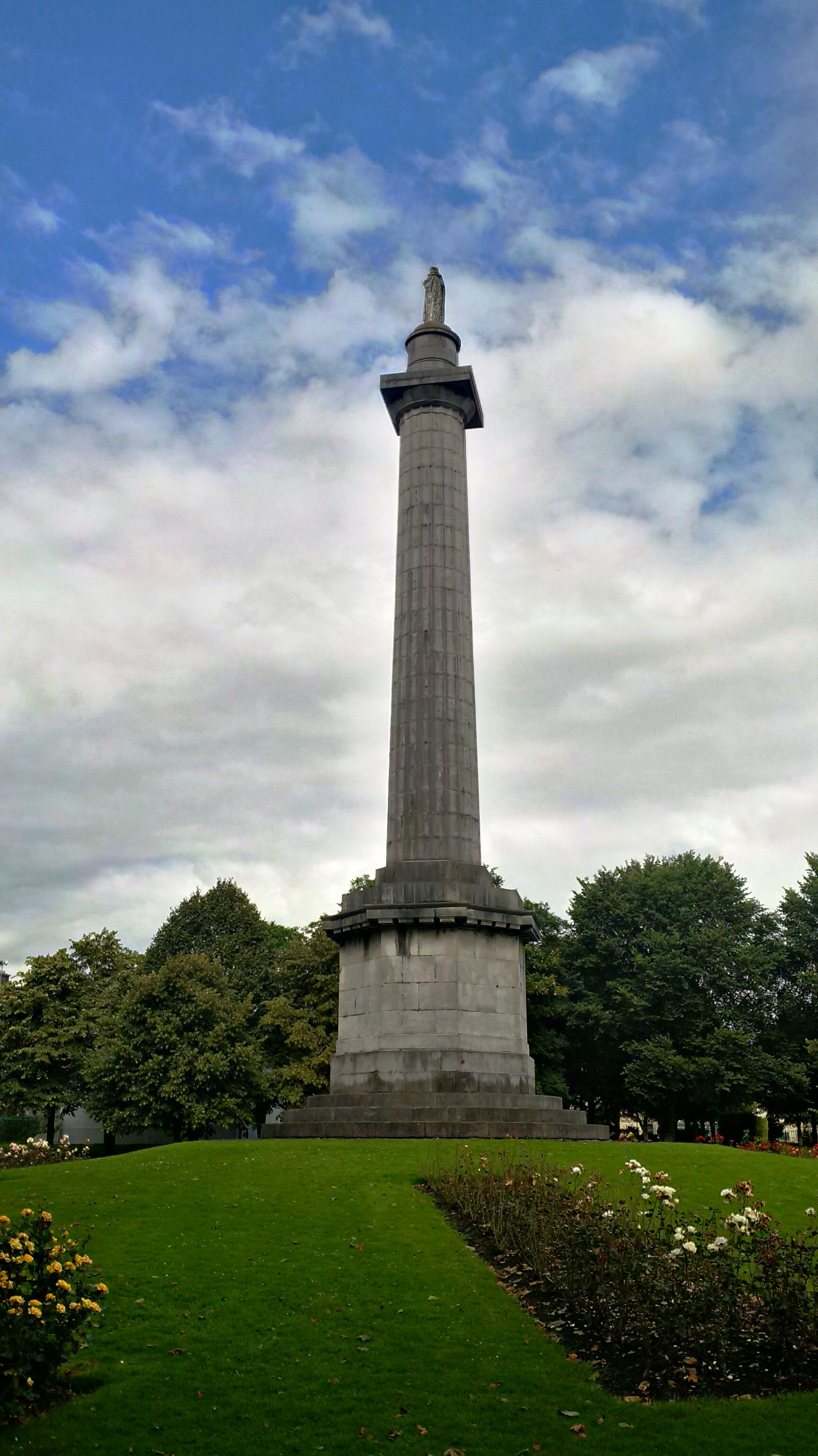 Rice Memorial